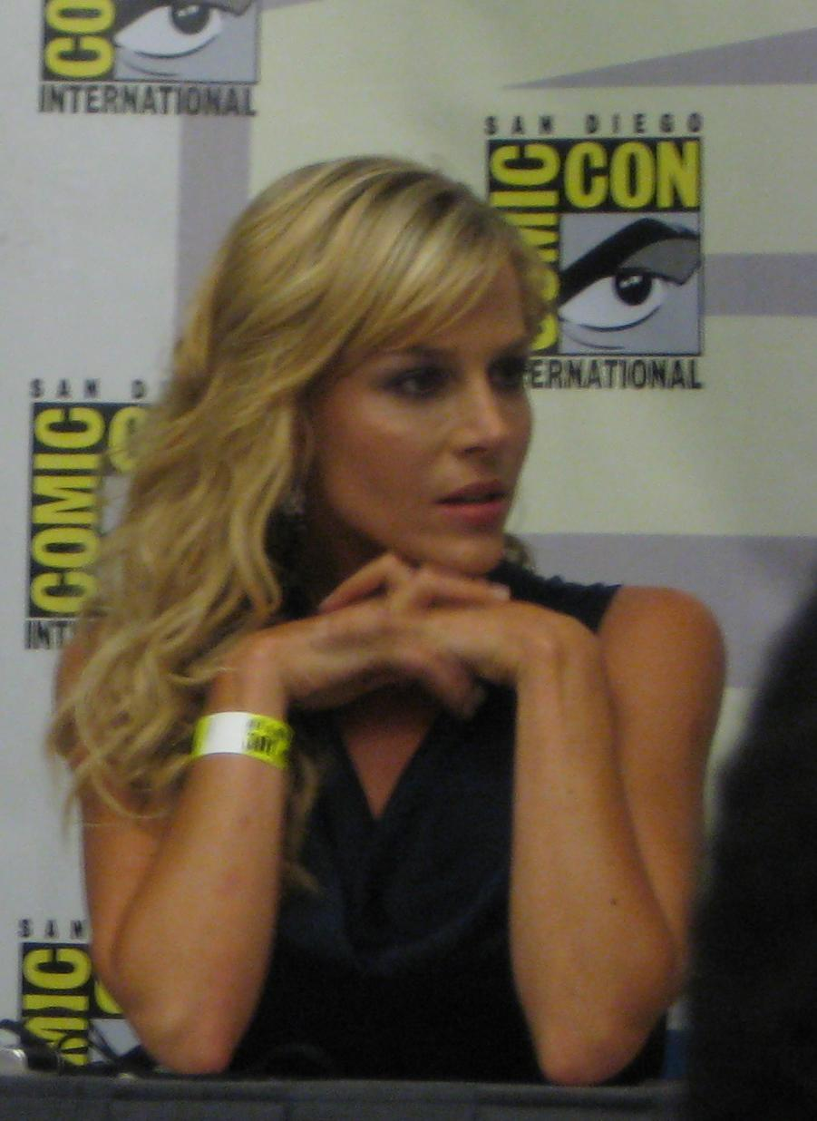 Actress Julie Benz – Comic-Con 2009 - Dexter press room - San Diego, Calif. - July 23, 2009.